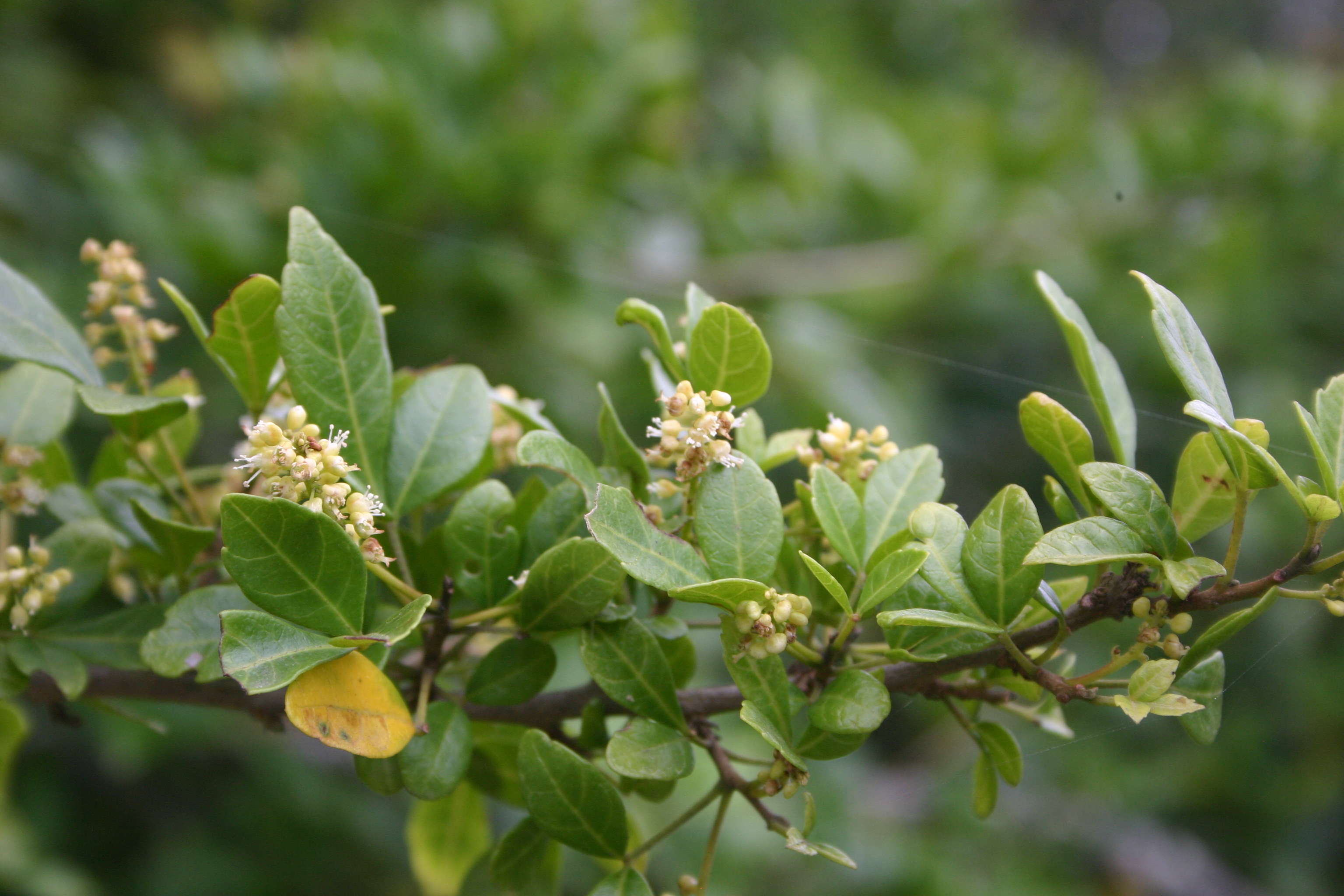 Flowers of Rhus crenata Thunb. at Nature's Valley nr Plettenberg Bay, South Africa